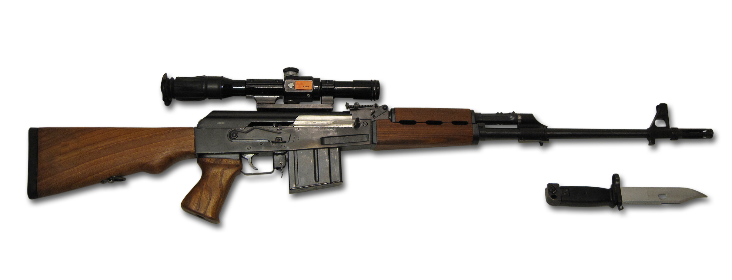 Zastava M-76 rifle with ZRAK M-76 4x 5°10’ telescopic sight and bayonet.